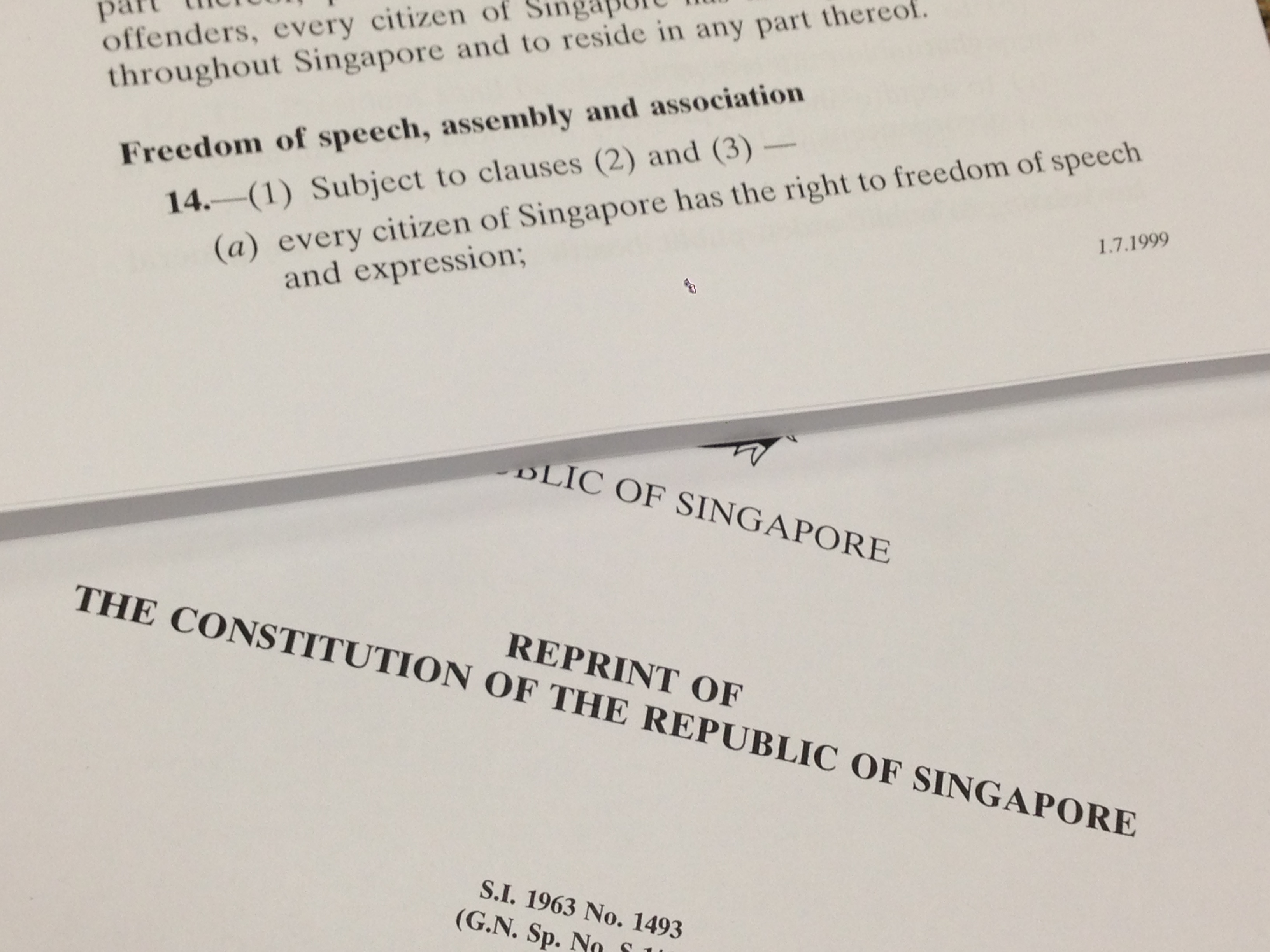 Article 14 of the Constitution of the Republic of Singapore (1985 Revised Edition, 1999 Reprint).